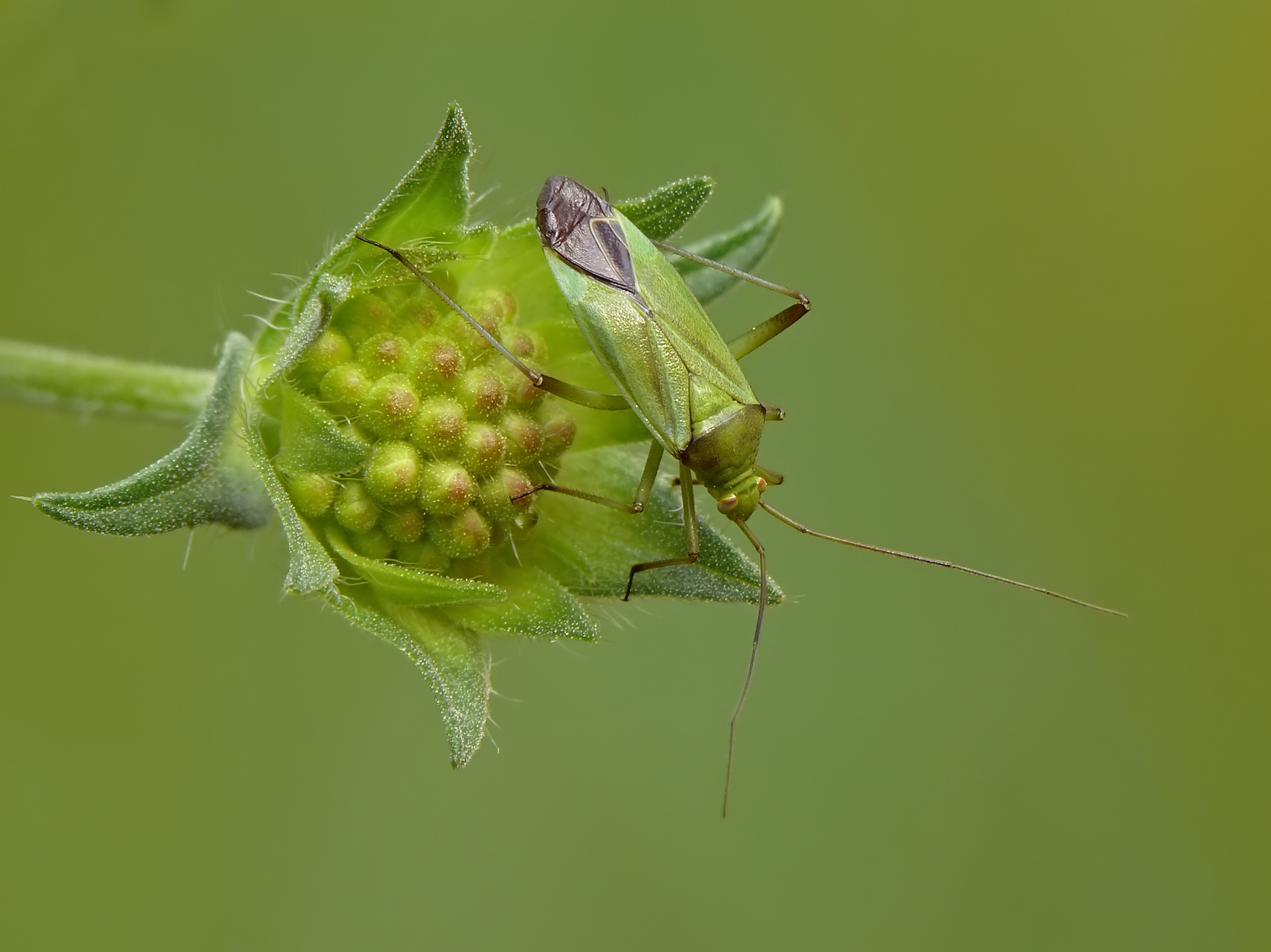 Grass bug (Calocoris affinis) on Field Scabious (Knautia arvensis).